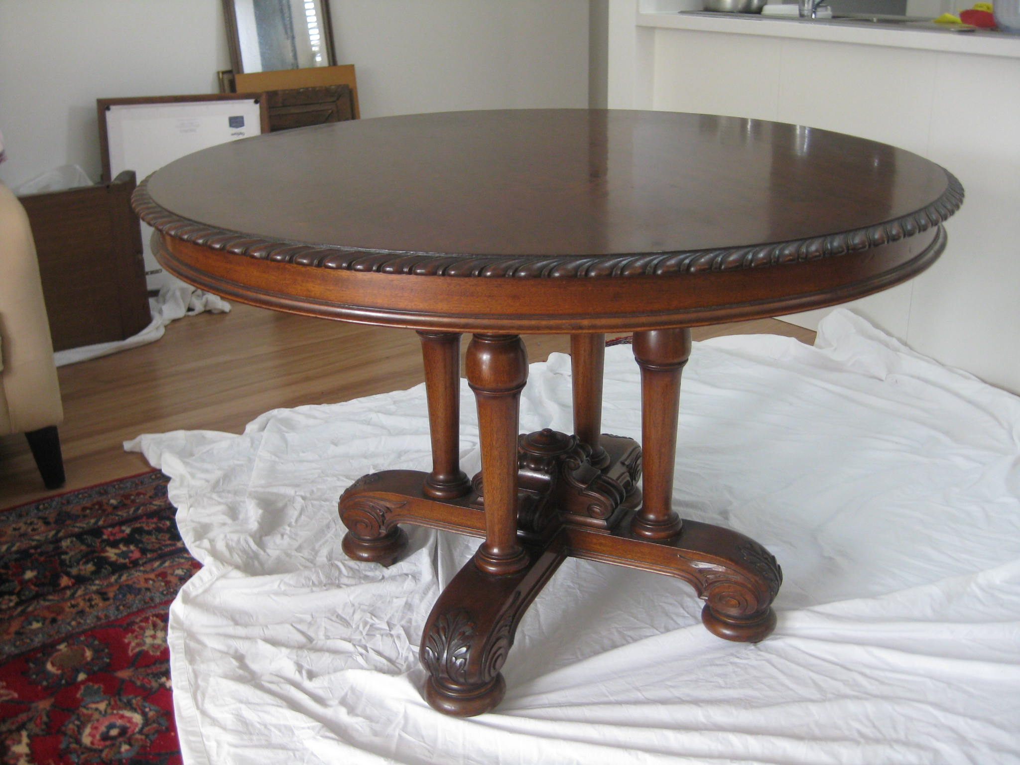 A circular Dining Table made by Francis de Groot, with four (not three) column supports and shaped base with acanthus carving: diameter 4 feet (1.2192 metres), made for Dame Eadith Walker, part of lot 353 of the auction on 15 February 1938 and succeeding days and held at Yaralla, Concord, New South Wales, Australia